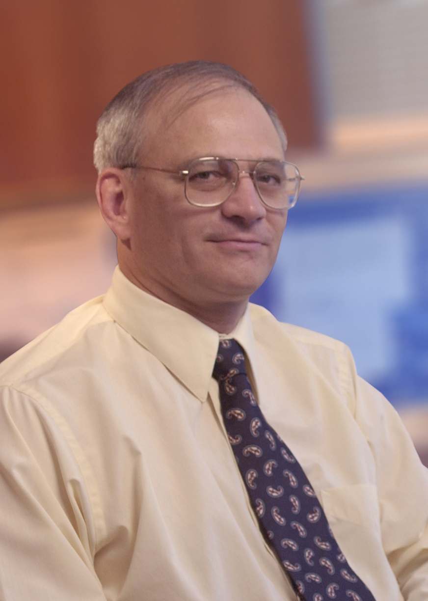 Dr. William A. Gahl, Intramural Clinical Director, NHGRI.